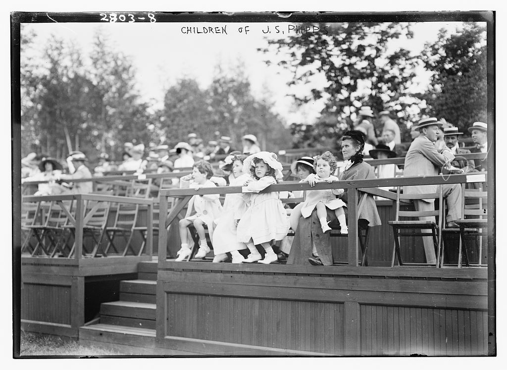 Bain News Service,, publisher. Children of John Shaffer Phipps [between ca. 1910 and ca. 1915] 1 negative : glass ; 5 x 7 in. or smaller. Notes: Title from unverified data provided by the Bain News Service on the negatives or caption cards. Forms part of: George Grantham Bain Collection (Library of Congress). Format: Glass negatives. Repository: Library of Congress, Prints and Photographs Division, Washington, D.C. 20540 USA, General information about the Bain Collection is available at Persistent URL: Call Number: LC-B2- 2803-8